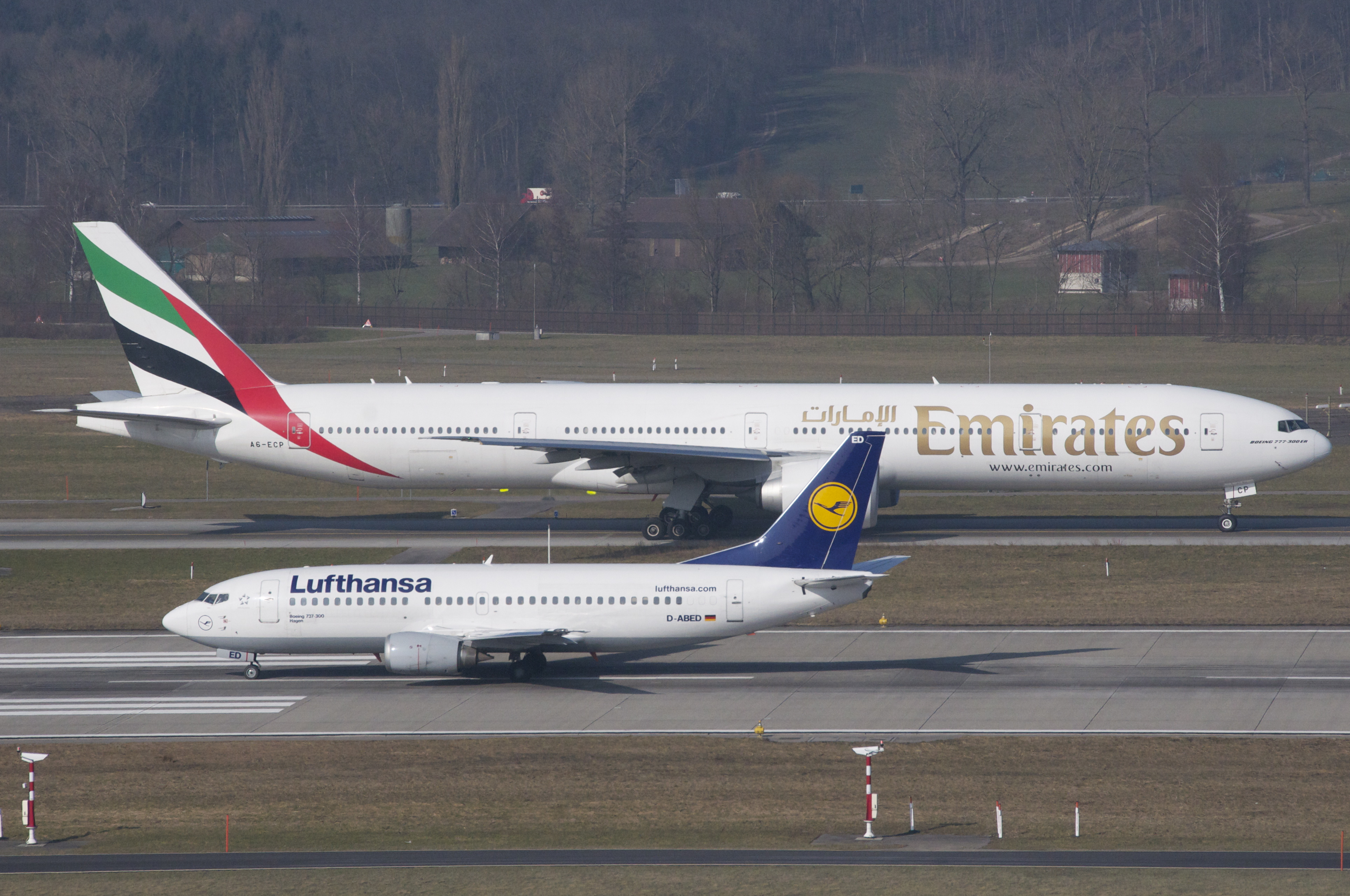 This Boeing 737-330, named 'Hagen', took its first flight on June 25, 1991 and was delivered to LH on July 12, 1991...(c/n 25215/ 2082) Departing back to FRA - with Nemesis EK behind...